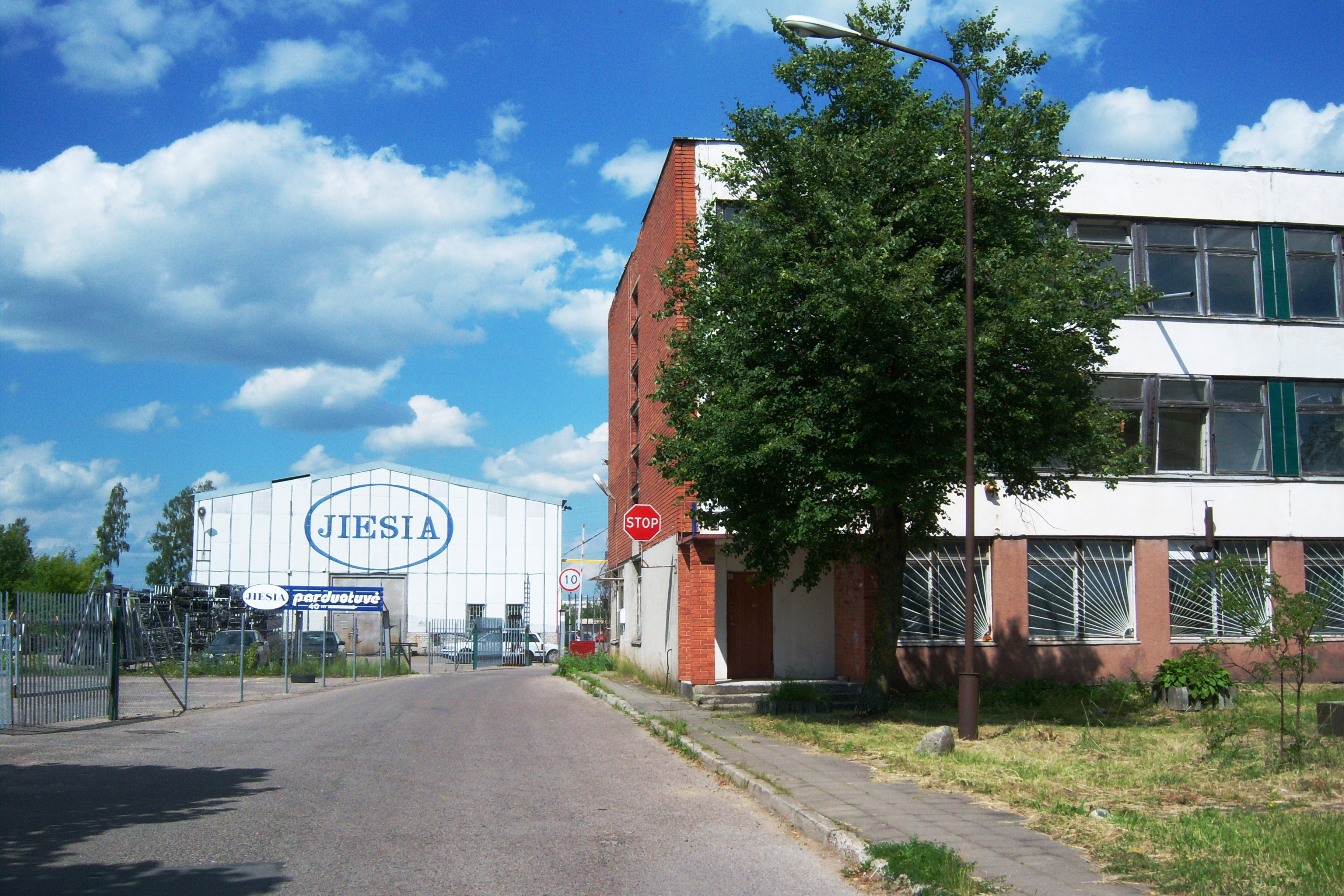 Joint stock company "Jiesia" in Kaunas, Lithuania